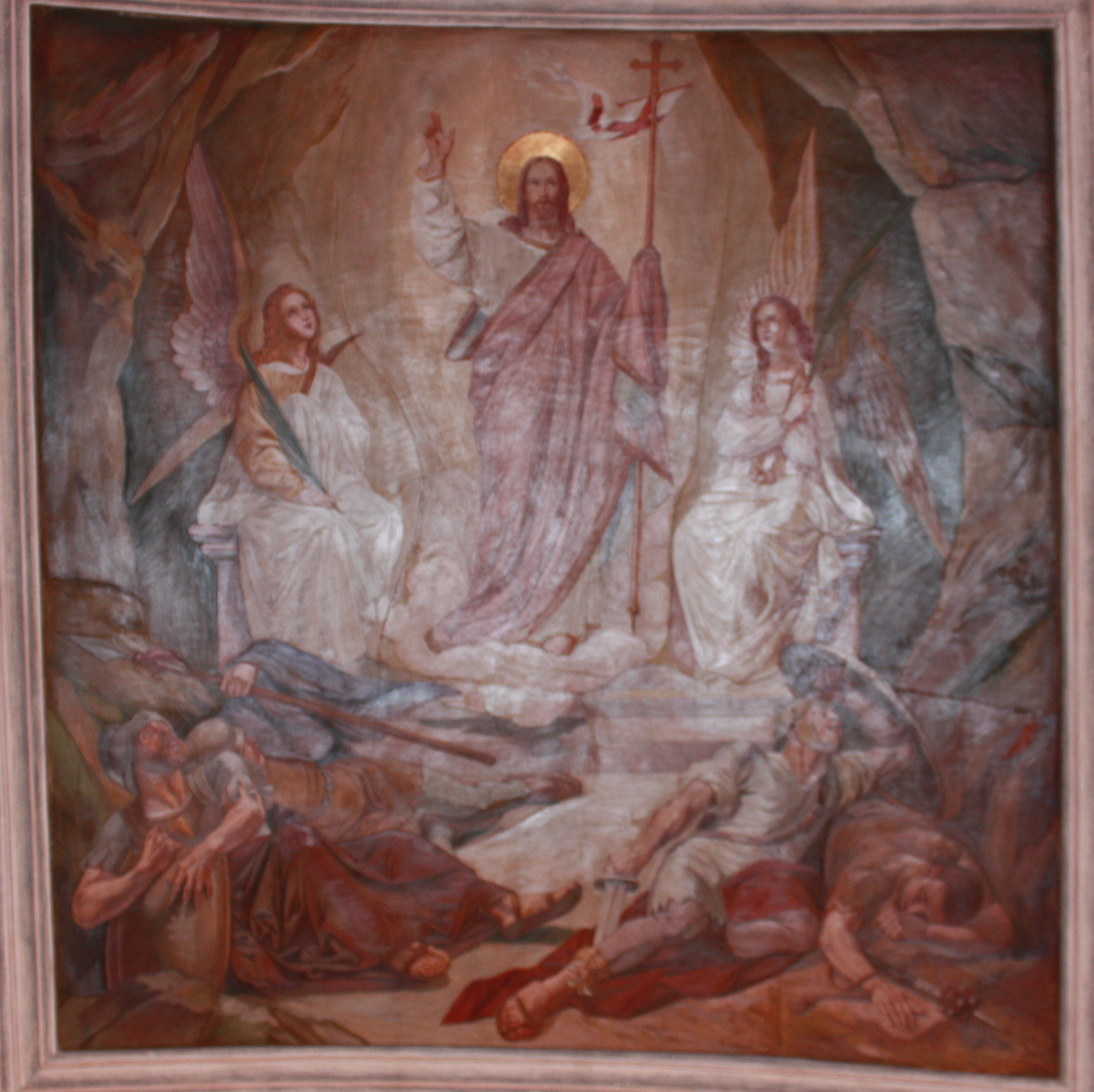 Parish church - ceiling-Painting: Resurection Locality: Spittal an der Drau Community:Spittal an der Drau